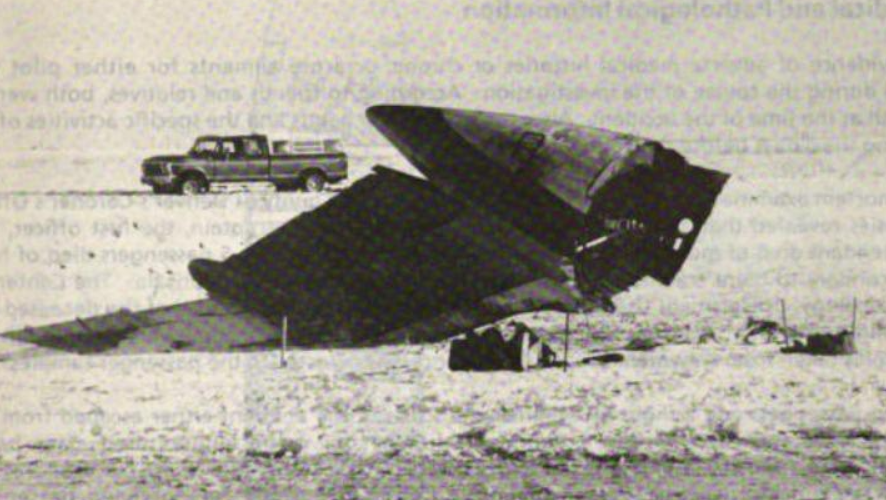 Continental Air Lines Flight 1713 wreckage